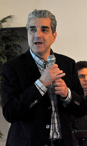 Radio Talk Show Host Steve Malzberg attends Americans For Prosperity "Maxed Out Spending Tour" on March 19, 2011 at Fire House #2 in Colt's Neck, New Jersey. (Photo Nick Stepowyj